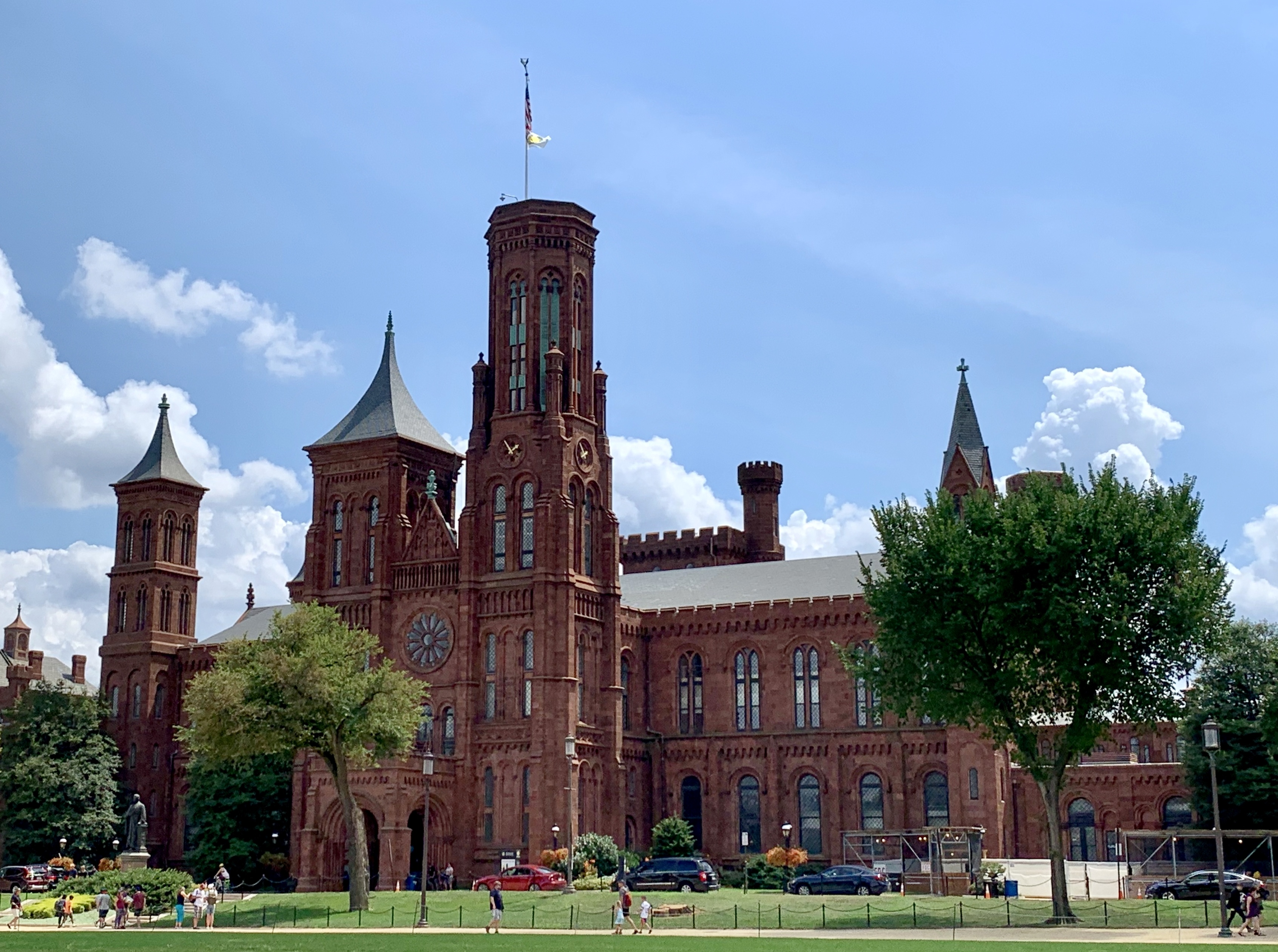 Smithsonian Institution Building in Washington, D.C.